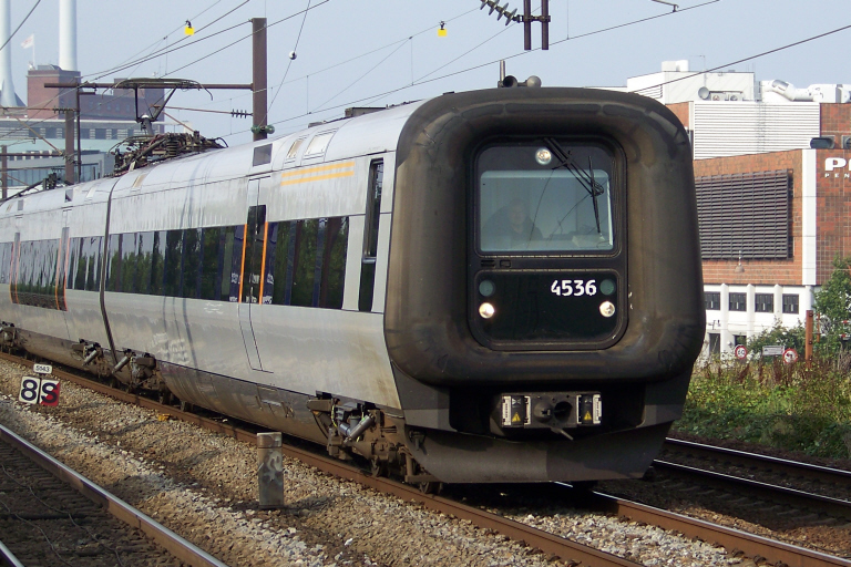 An Øresund-train passing Nordhavn Station in Copenhagen.